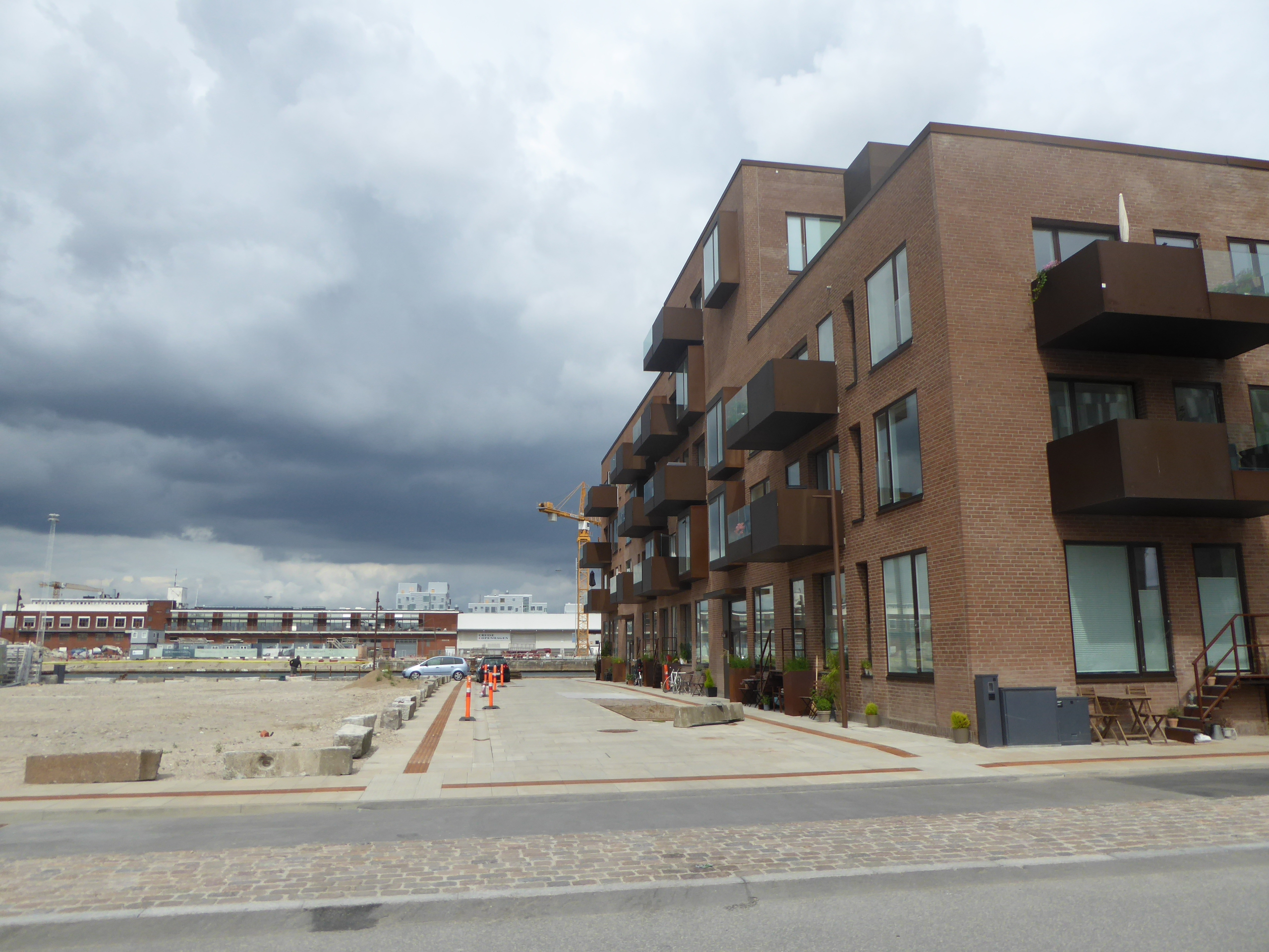 The street Dover Passage with Kronløbshuset in Nordhavn in Copenhagen.